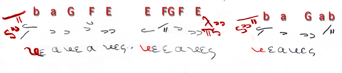 Intonations of the devteros pentachord (Erotapokriseis treatise)